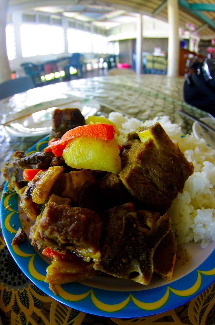 Tuvalu